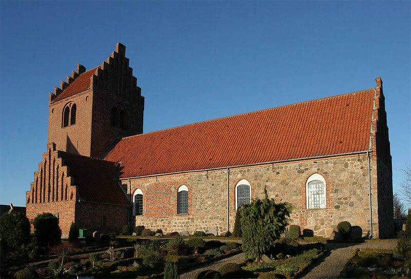 Grevinge Kirke (church) in the northwestern part of Zealand, Denmark Photo taken December 2005 by Henrik Jessen